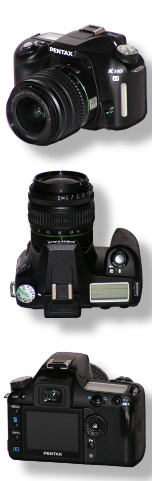 Pentax K110D digital single-lens reflex (SLR) camera